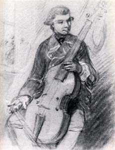 Sketch of Carl Friedrich Abel by dating from 1763 or 1765.